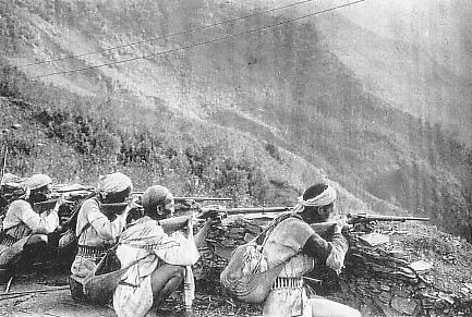 Mikata-Ban(Pro-Japanese aborigine)